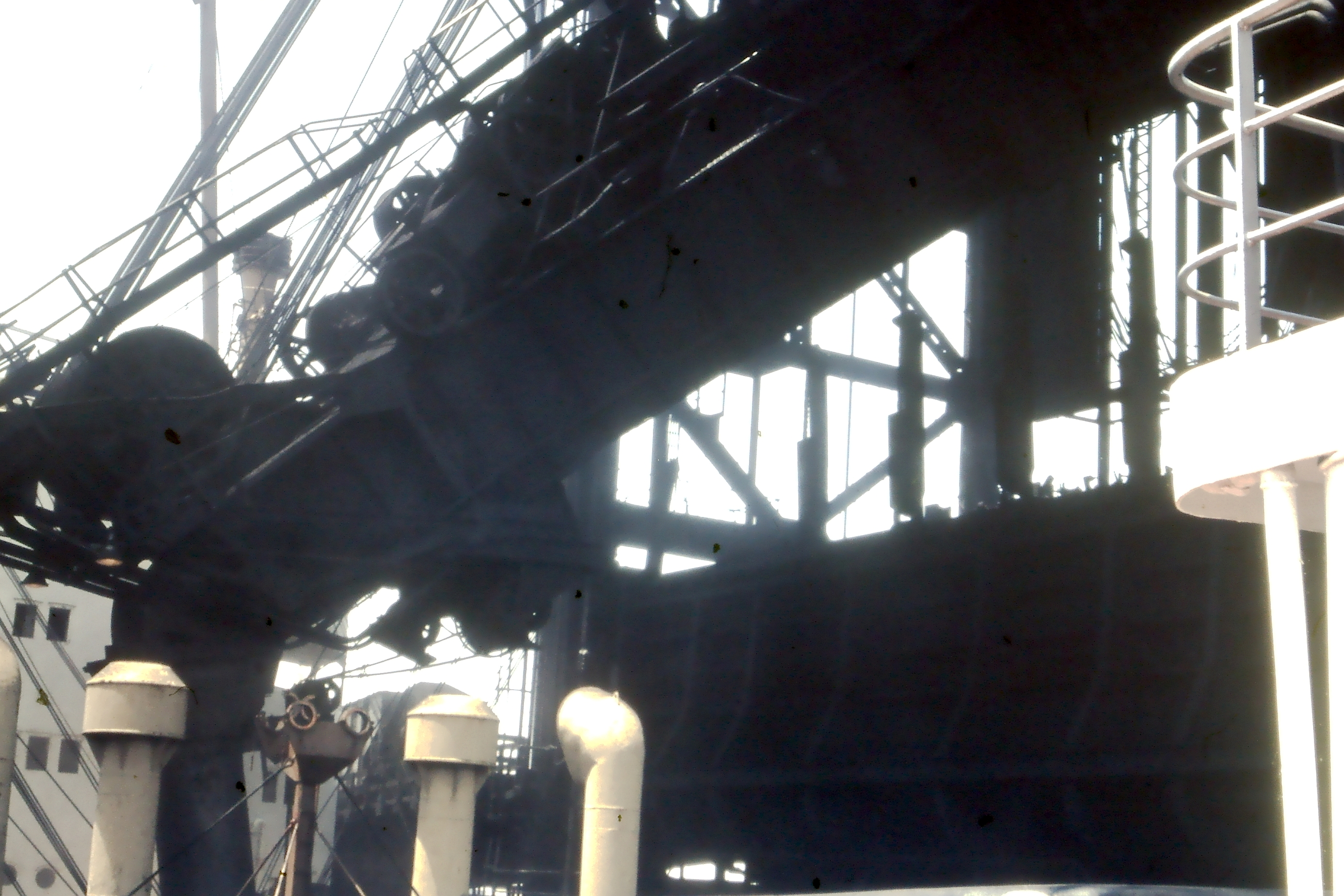 Bulk loading of a cargo ship at the coal loading facility of Hampton Roads USA - 1957